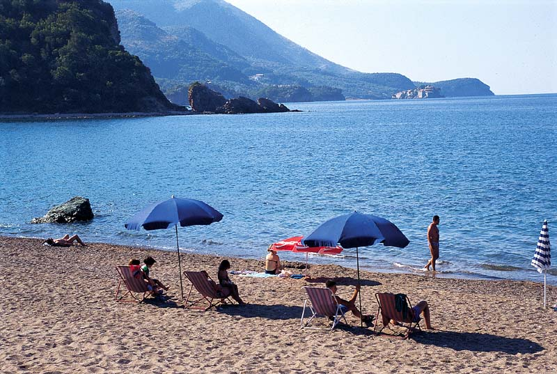 Picture of Bečići. Self-made